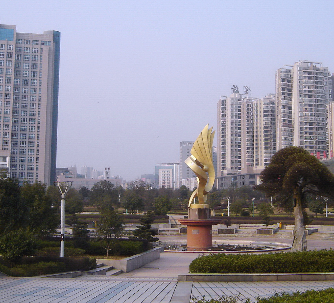 JinYuan Square,xiangtan city,hunan,China.this city's Civic Center.